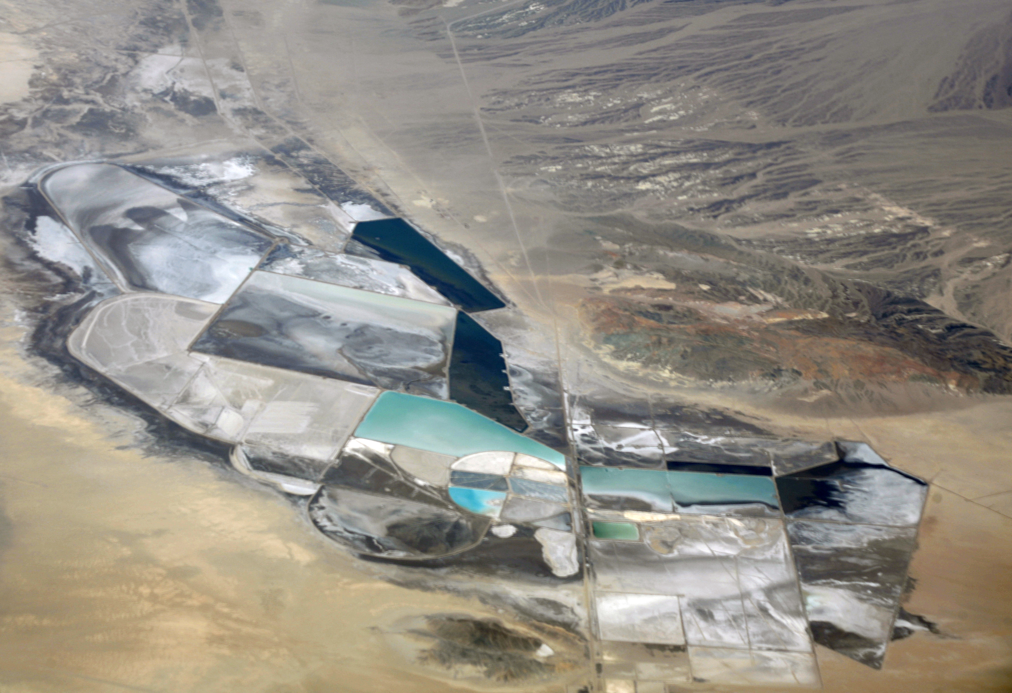 The Chemetall Foote Lithium Operation in Clayton Valley, a dry lake bed in Esmeralda County, Nevada, just east of Silver Peak, a tiny town that has been host to various kinds of mining for about 150 years.